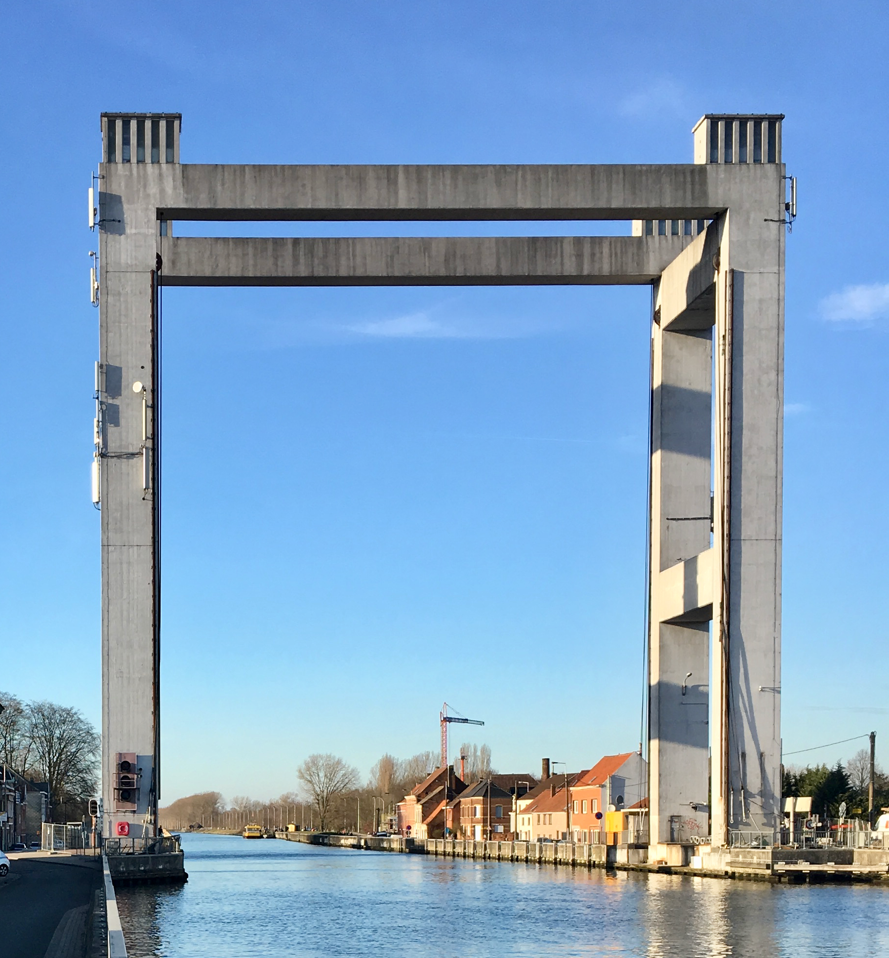 Humbeekbrug after the removal of the bridge deck following an accident during January of 2019